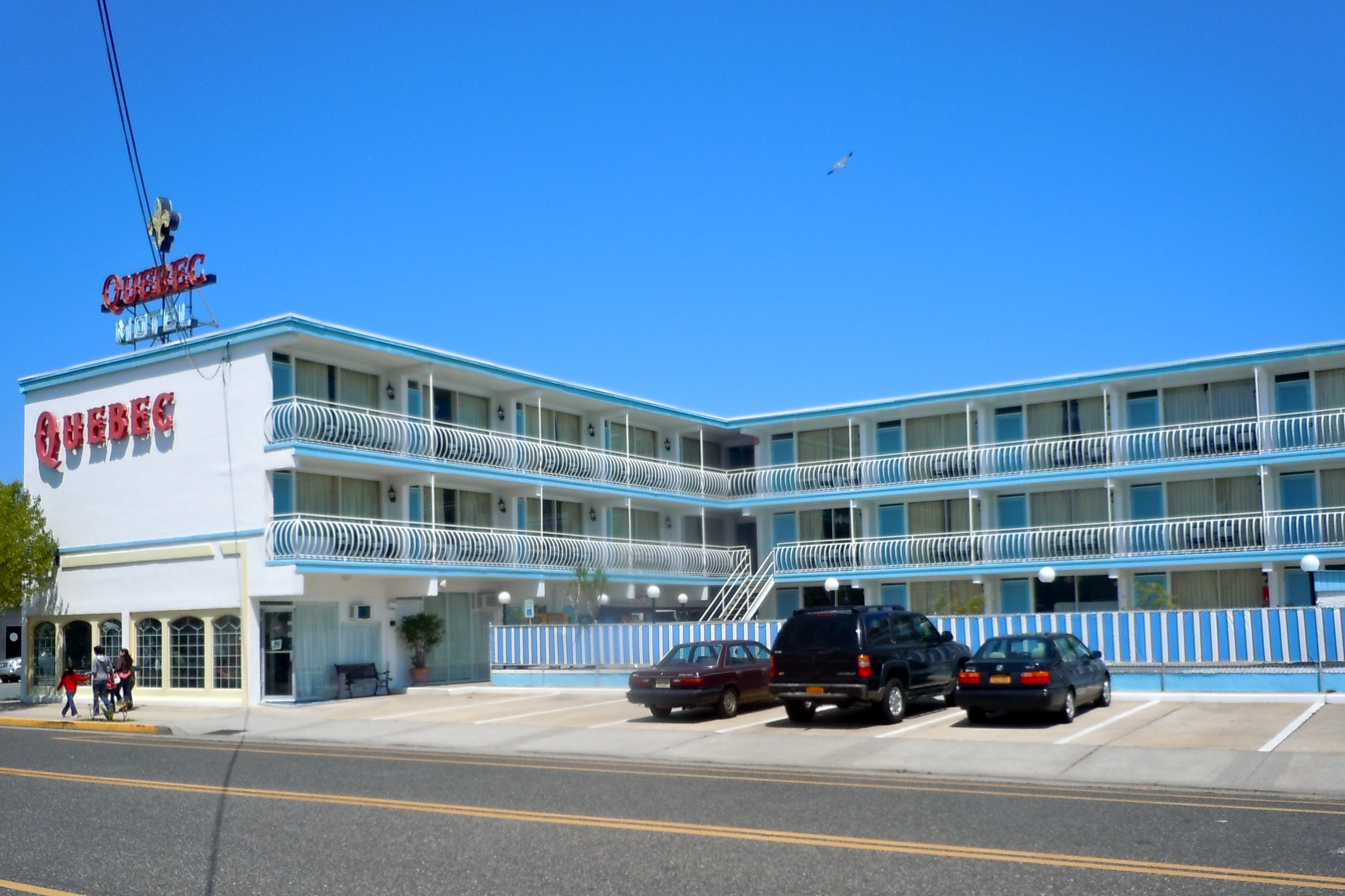 Quebec Motel in Wildwood, New Jersey. In the Wildwood Shore Historic District (an official NJ Historic District, but the district is NOT NRHP).